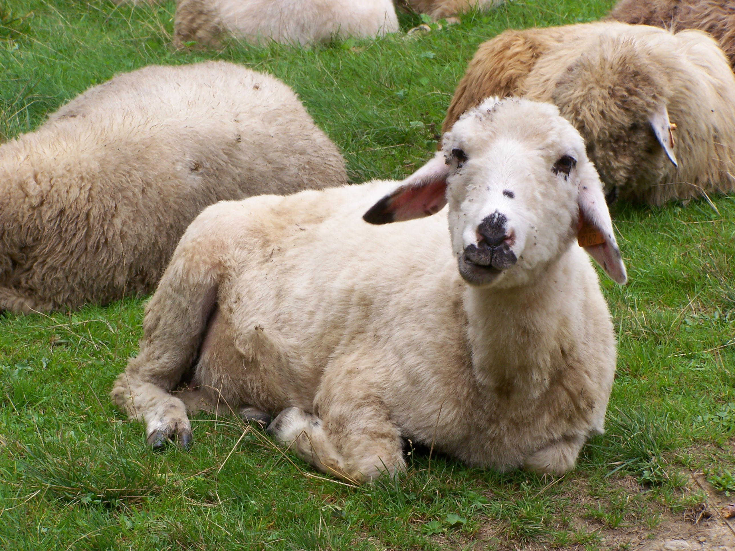 Sheep.